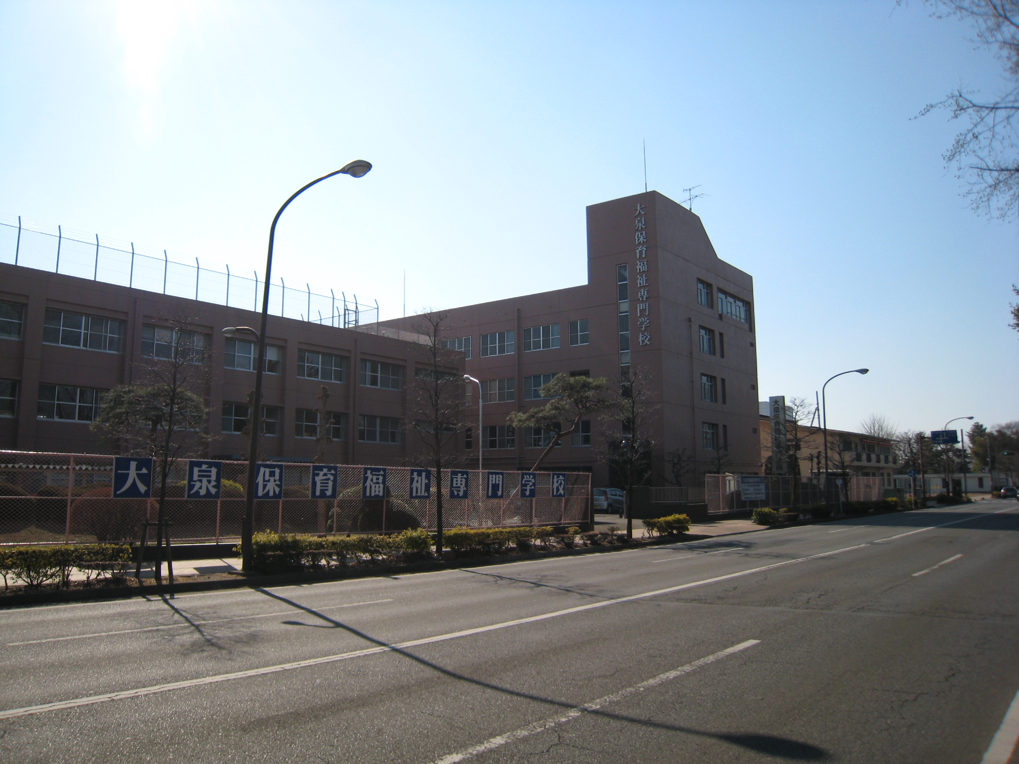 Main gate of the Oizumi College of Social Workers in Oizumi Town, Gunma Prefecture, Japan